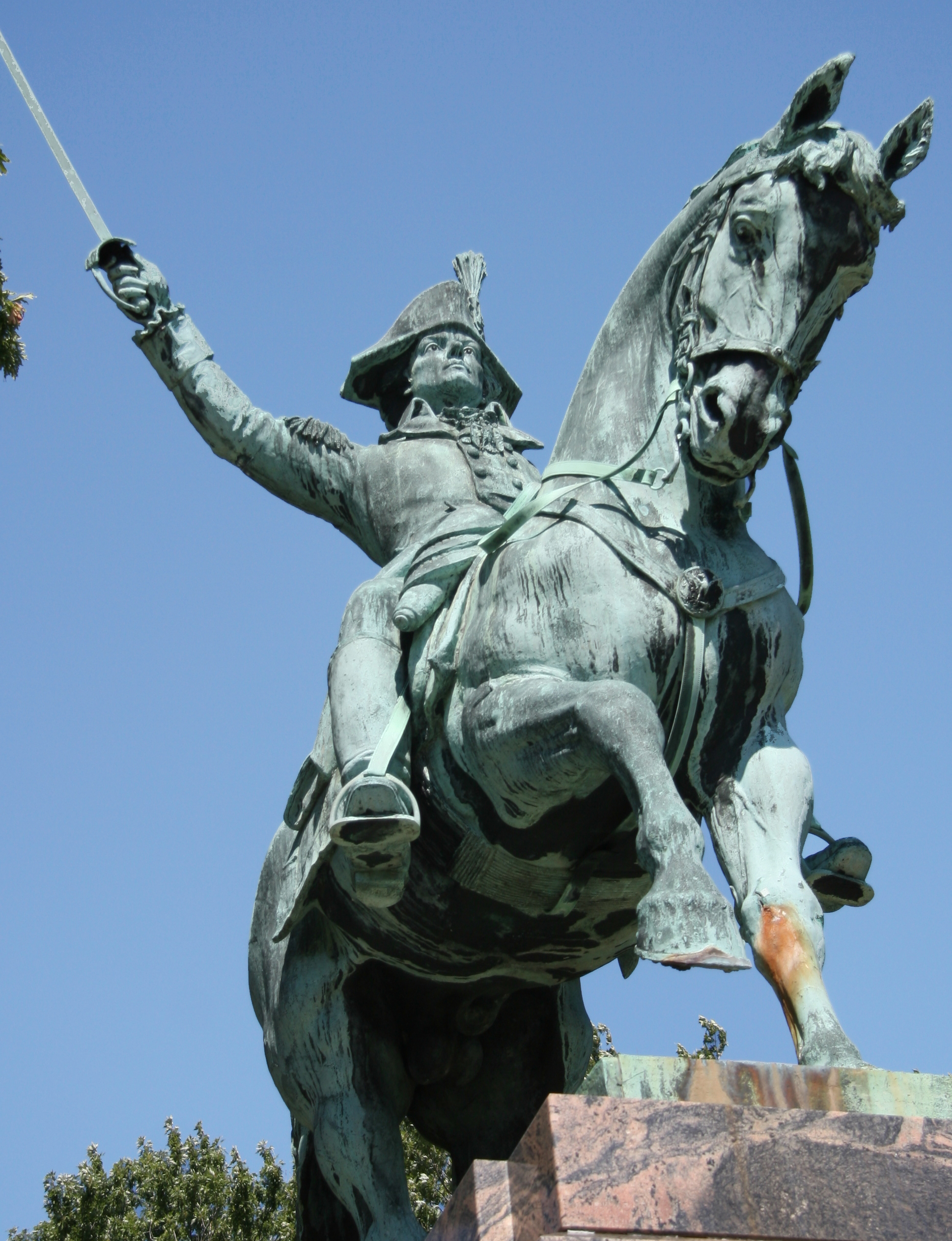 Monument to Thaddeus Kosciuszko in Milwaukee's Kosciuszko Park, on the city's South Side. This statue was sculpted by Gaetano Trentanove in 1904 and was a gift from the Polish National Alliance, dedicated on June 18, 1905. Several decades later, the monument was relocated within Kosciuszko Park to face Lincoln Avenue (a main thoroughfare) and rededicated on September 16, 1951 [1]. Following community-led fundraising over the course of a few years that brought in $360,000, the statue was restored in Ohio and re-dedicated in Kosciuszko Park on Nov. 11, 2013.